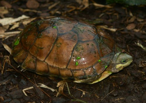 Cuora zhoui female by Torsten Blanck